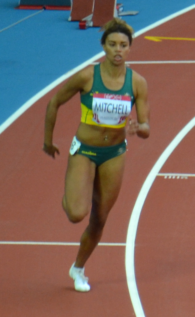 Glasgow 2014 - Athletics Women's 400 metres Heat 6: Morgan Mitchell (AUS)